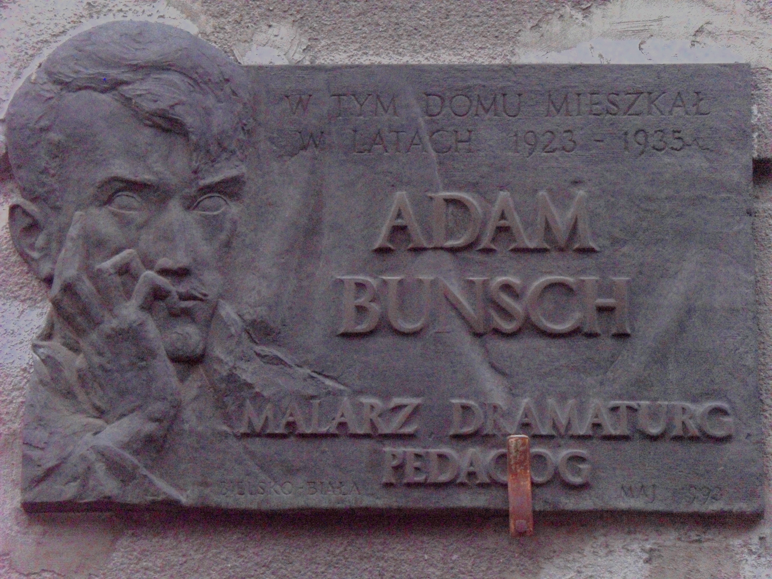 Adam Bunsch plaque Bielsko-Biała Mickiewicza street